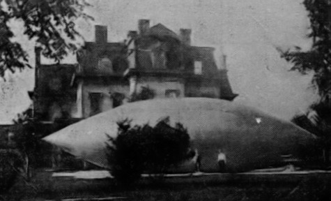 Carl Myers standing in front of his new balloon design at the "balloon farm"